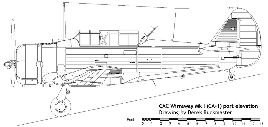 Line drawing showing the side elevation of a CAC CA-1 Wirraway Mk 1 aircraft. This drawing is based on factory drawings and measurements taken from actual aircraft